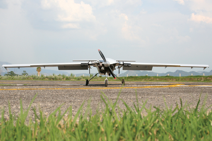 S4 Ehecatl front